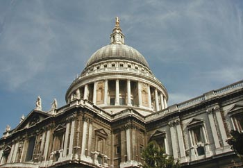 Photo taken by Daniel Levine on 11July 2003. Released to public domain.